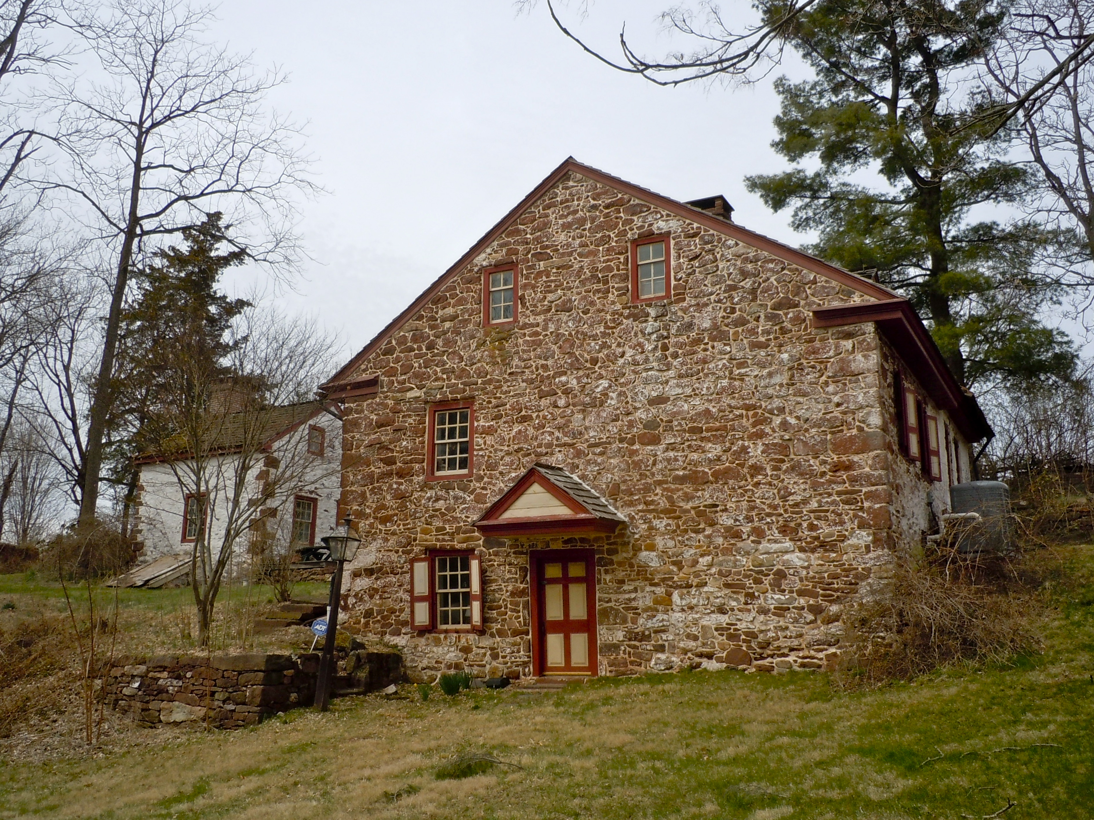 Mordecai Lincoln House on the NRHP since November 3, 1988, on Lincoln Road in Lorane, right by the creek on the south-east end of the village, in Exeter Township , Berks County, Pennsylvania. Mordecai Lincoln was the Great-Great-Grandfather of President Abraham Lincoln. The house is currently in use as a residence, with a heat-pump and home security service sign. Built 1733 by M. Lincoln. Surprisingly this is only about 10 miles from Daniel Boone's birthplace.